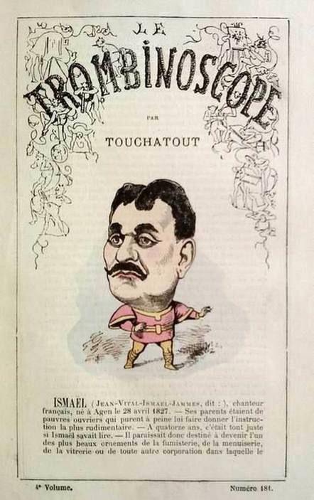 Caricature of Jean-Vital Ismaël (1825-1893) on the front page of Le Trombinoscope, N° 181